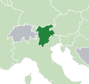 Locator map of the Euroregion Tirol - South Tirol - Trentino